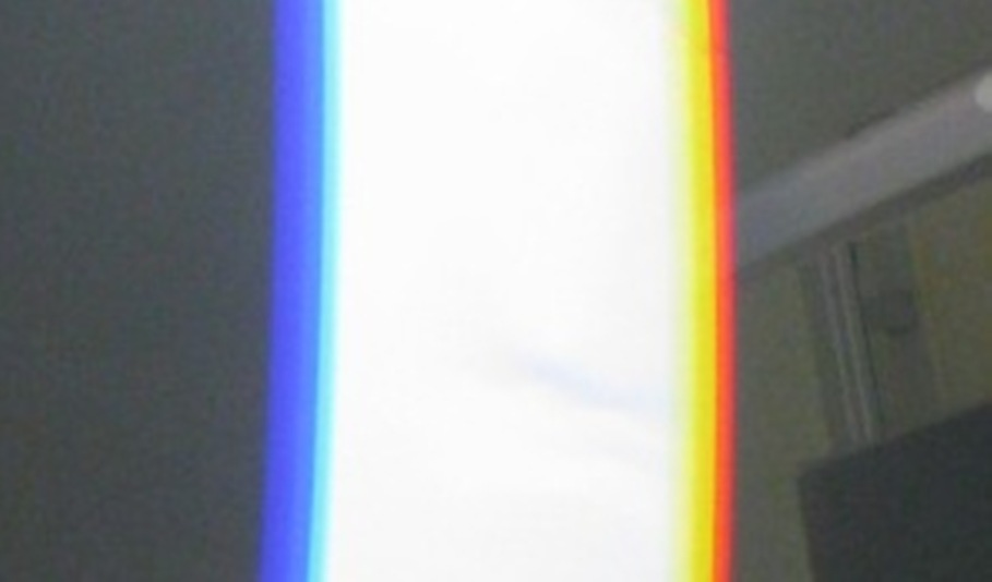 The two edges of color photographs by a prism